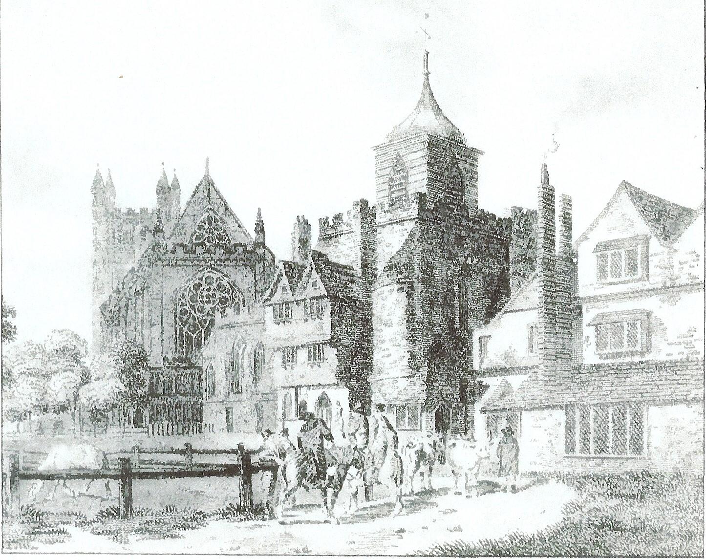 A painting of the church of St Mary Major, Exeter, Devon, England before its demolition in 1865